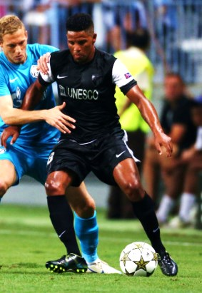 Eliseu